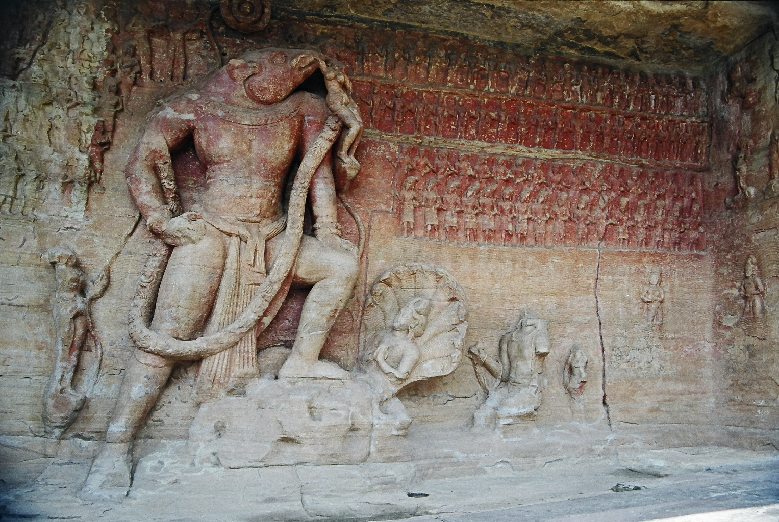 Description=Massive rock carving depicting Vishnu, in his Varaha (Boar) incarnation at cave No. 5 of Udaigiri Caves, Vidisha, India. Author=User:Clt13